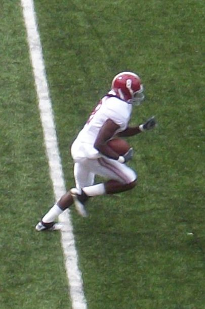 Julio Jones fielding a punt in warm ups prior to the 2010 Alabama vs. Arkansas game in Razorback Stadium, Fayetteville, Arkansas.